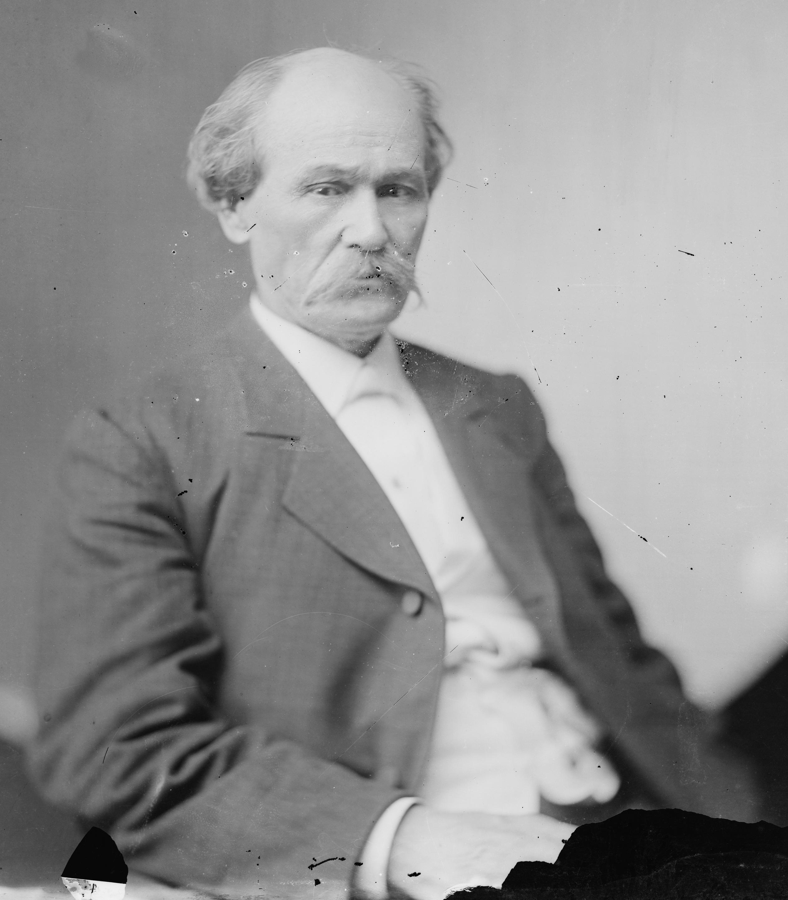 Isham G. Harris. Library of Congress description: "Harris, Hon. Isham G. Senator from Tenn. Aide on staff of Gen Albert S. Johnston CSA"